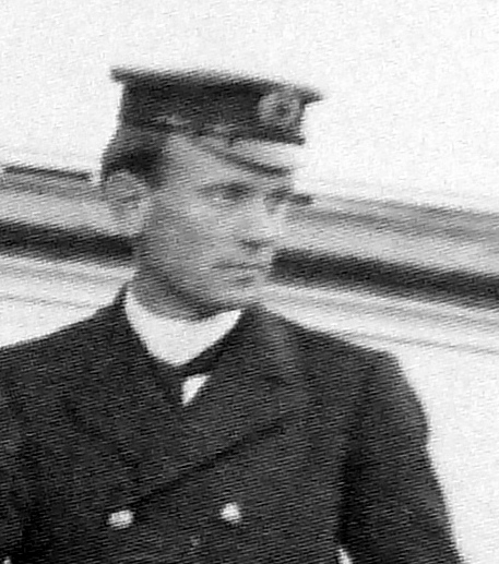 Rupert Michell, physician on the Nimrod Expedition (1907-1909)